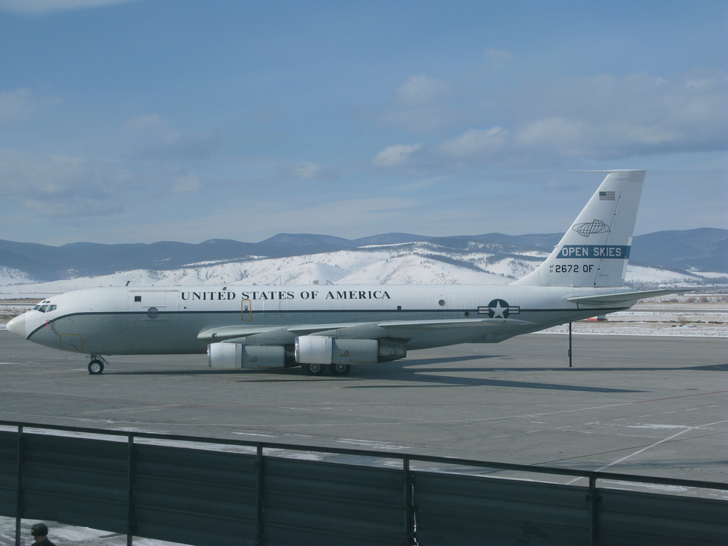 An OC-135B aircraft sits on an airfield at Ulan-Ude, Russia prior to an Open Skies flight. DTRA conducts inspection flights with the U.S. Air Force in accordance with the Open Skies treaty.